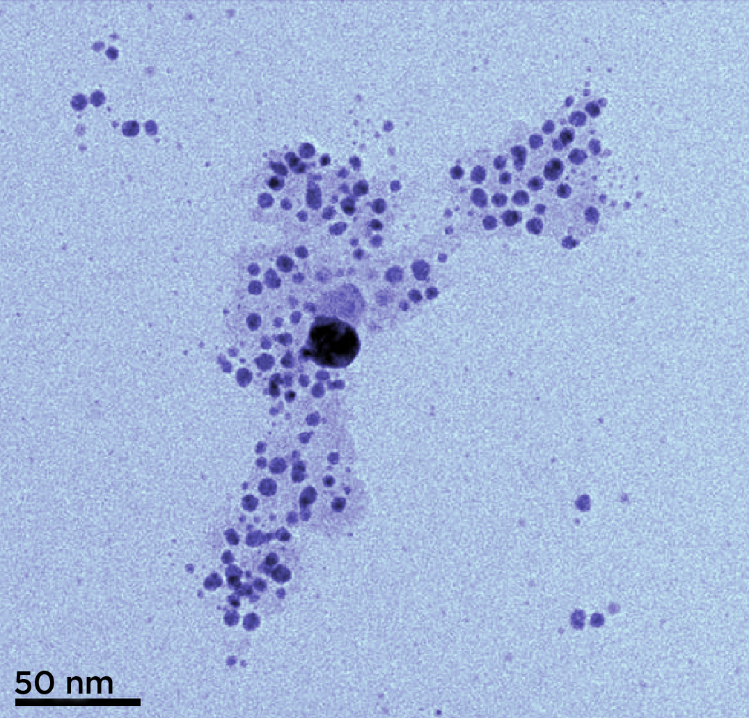 Transmission electron microscopy (TEM) image of silver nanoparticles formed from silver ions in solution with humic acid. The acid tends to coat the nano particles (visible here as a pale cloud), keeping them in a colloidal suspension instead of clumping together. (Color added for clarity.) Credit: SUNY, Buffalo Disclaimer: Any mention of commercial products within NIST web pages is for information only; it does not imply recommendation or endorsement by NIST. Use of NIST Information: These World Wide Web pages are provided as a public service by the National Institute of Standards and Technology (NIST). With the exception of material marked as copyrighted, information presented on these pages is considered public information and may be distributed or copied. Use of appropriate byline/photo/image credits is requested.